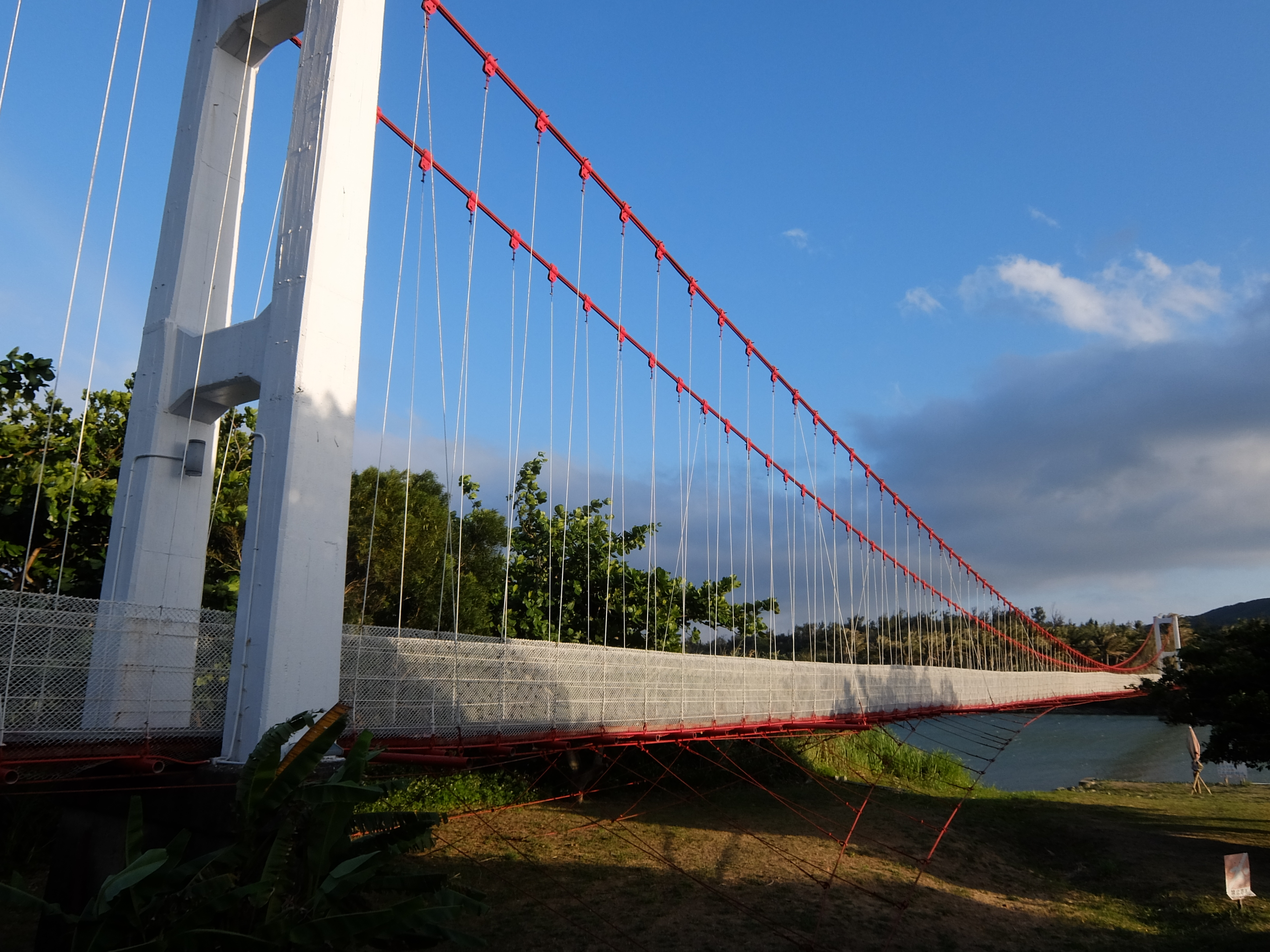 Gangkou Suspension Bridge, Kenting National Park, Manzhou Township, Pingtung County, Taiwan